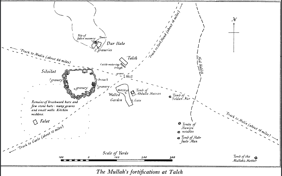 Plan of the remains of Taleh Fort